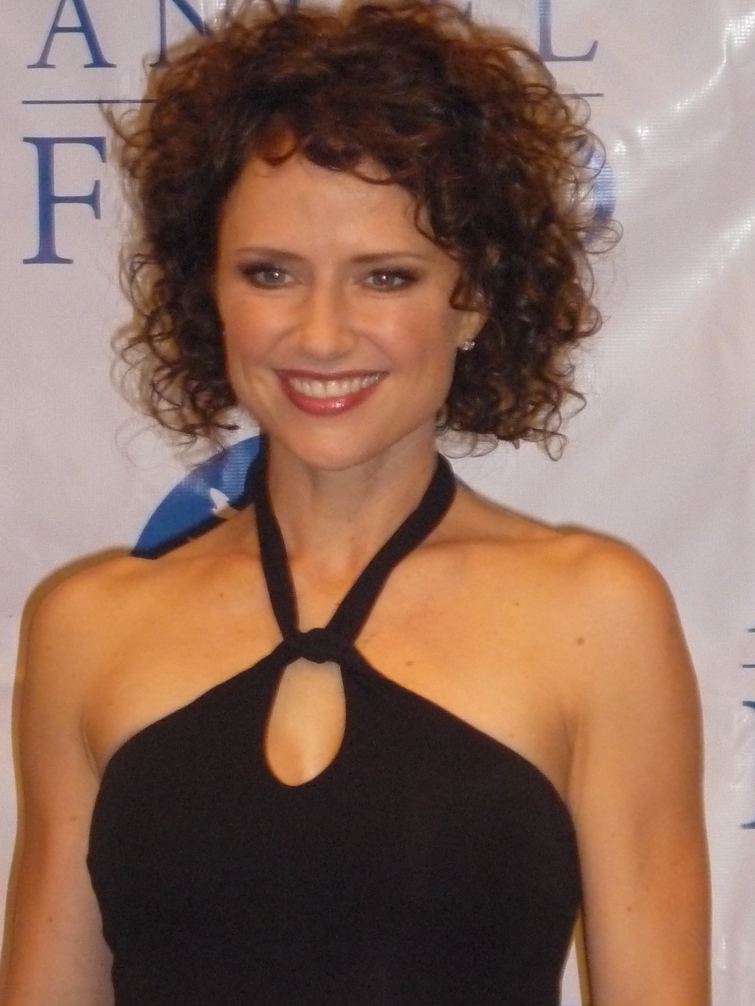 A photo of Jean Louisa Kelly in 2009.